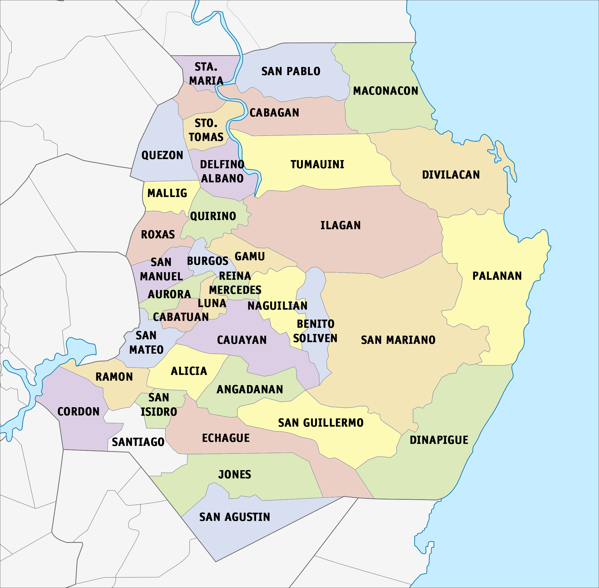 Political map of Isabela, Philippines